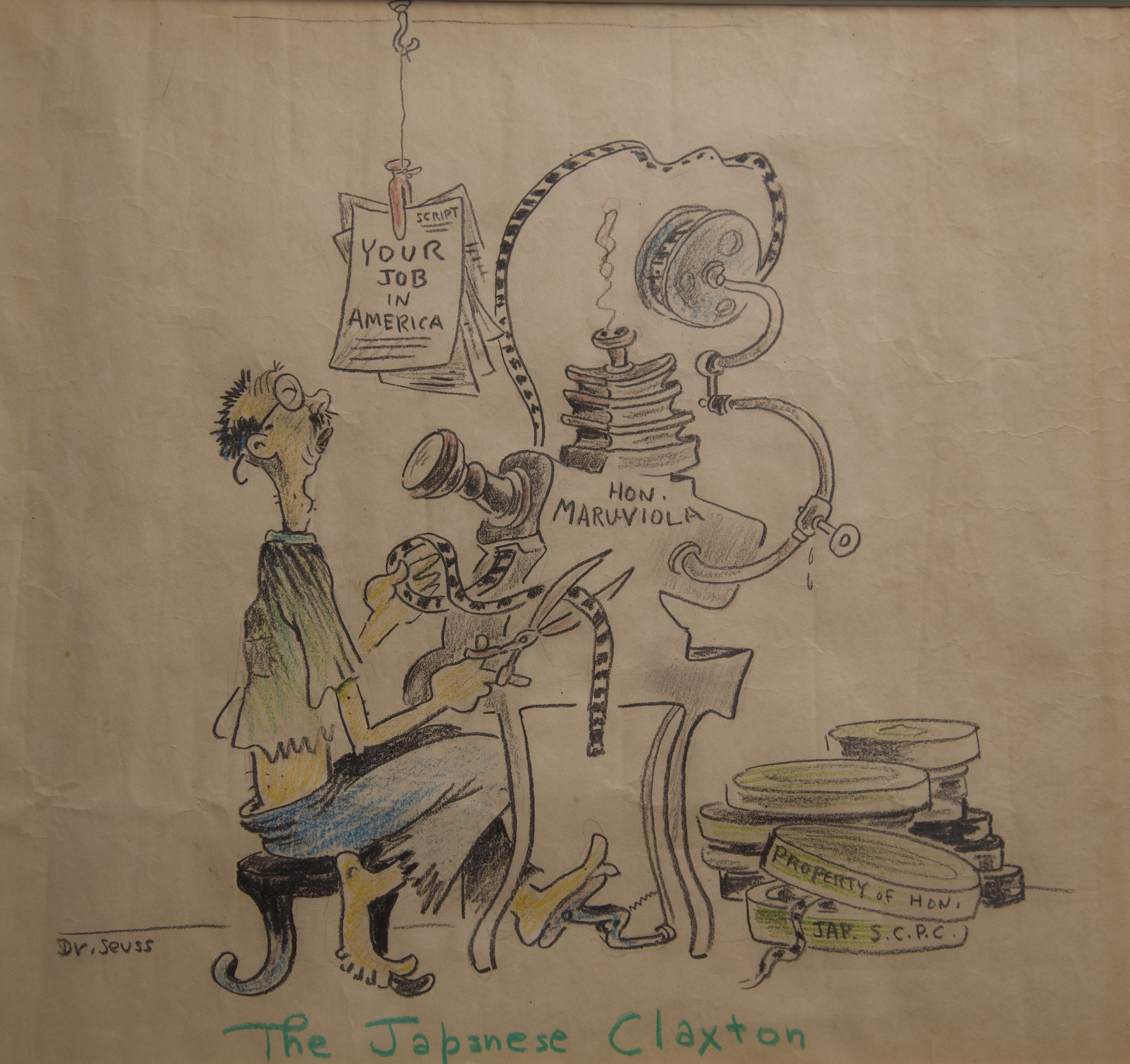 Drawing created during World War II.